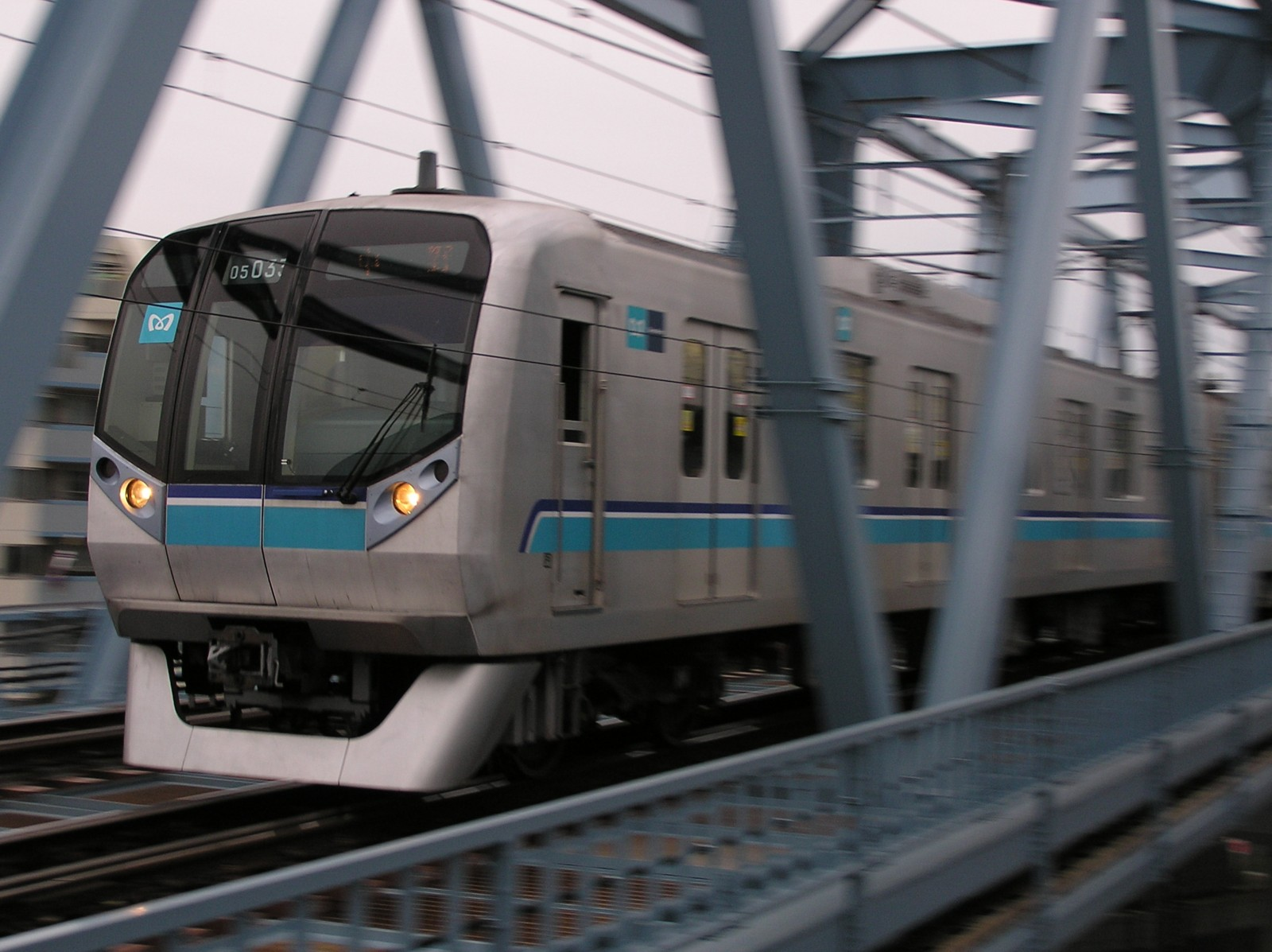 撮影地 Place of photo西葛西～南砂町撮影の状況 How to take公道から撮影 At public roadトリミングの有無 Cropped or not非トリミング Not Cropped内容 Description東西線05系05-133F Series 05 which is a train of Tokyo Metro Tozai Line